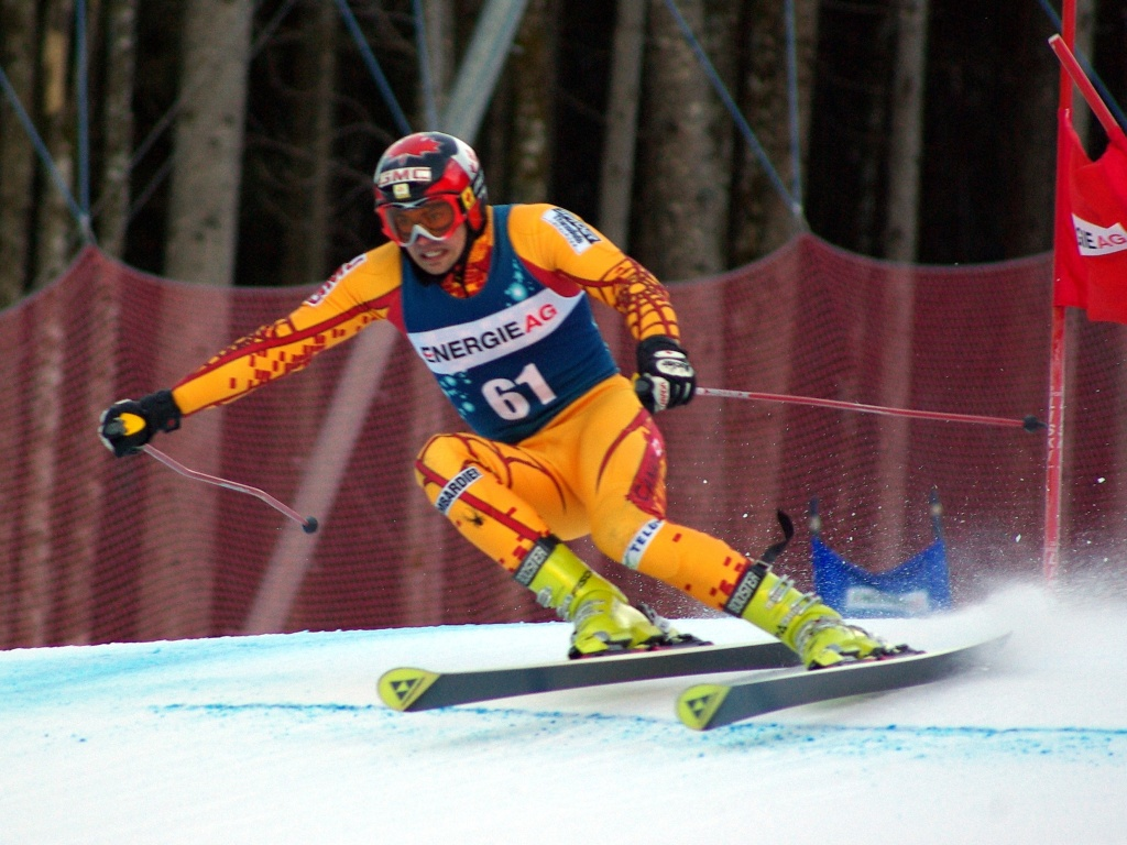 Canadian alpine skier Trevor White during the European Cup Giant Slalom in Hinterstoder, Austria on January 11, 2008.